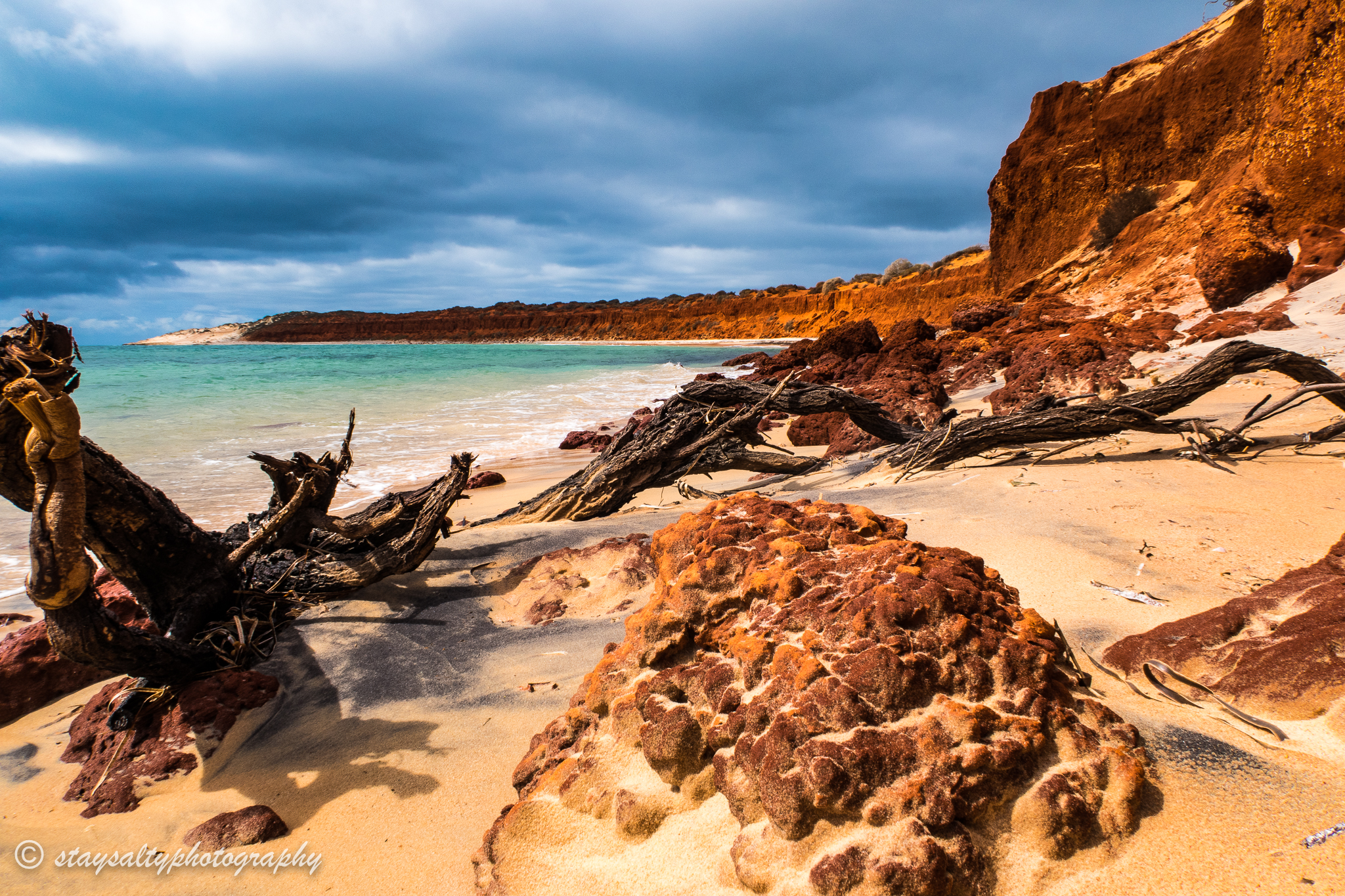 The deep red Iron Ore cliffs meeting the turqouise waters of Shark Bay at the end of Bottle Bay in Francois Peron National Park, Western Australia